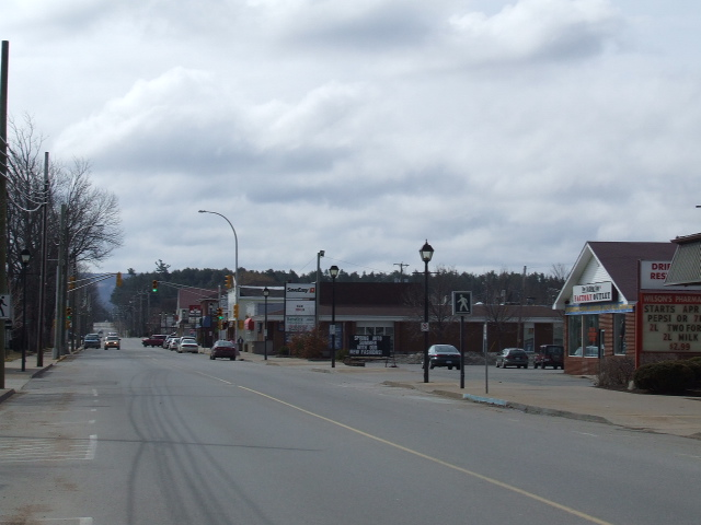 Looking south along Commercial Street in Berwick, Nova Scotia, the town's main business district with parking lots and bland low-rise retail buildings that replaced the street's former heritage buildings. The stand of trees in the background is the United Church campground